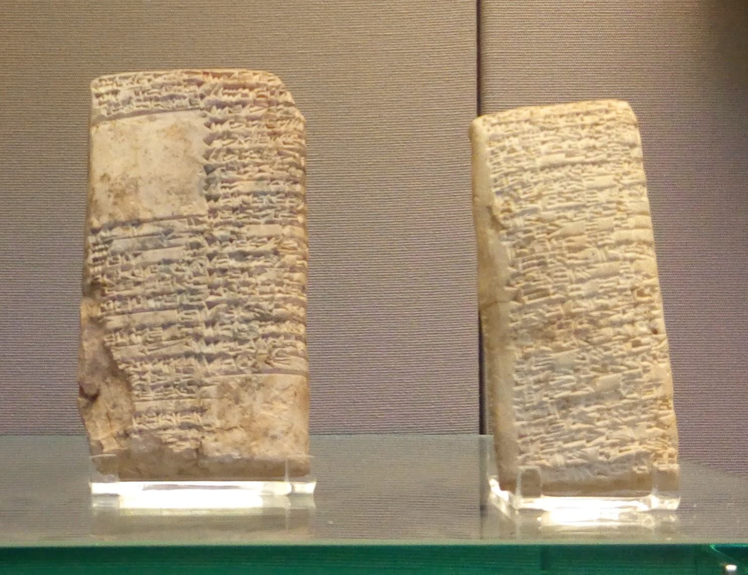 Two tablets from Ur traders' archives, paleo-babylonian period : - left : a list of gifts made to the Ningal temple after a successful trading voyage to Dilmun (1887 BC) - ME 131290 - right : complaint about delivery of the wrong grade of copper (c. 1750 BC) - ME 131936